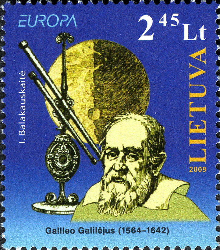 Stamp of Lithuania: Astronomy-Galileo Galilei